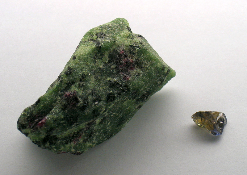 Anyolite (left: Chrome-zoisite, Ruby and Tschermakite) and tanzanite (right)